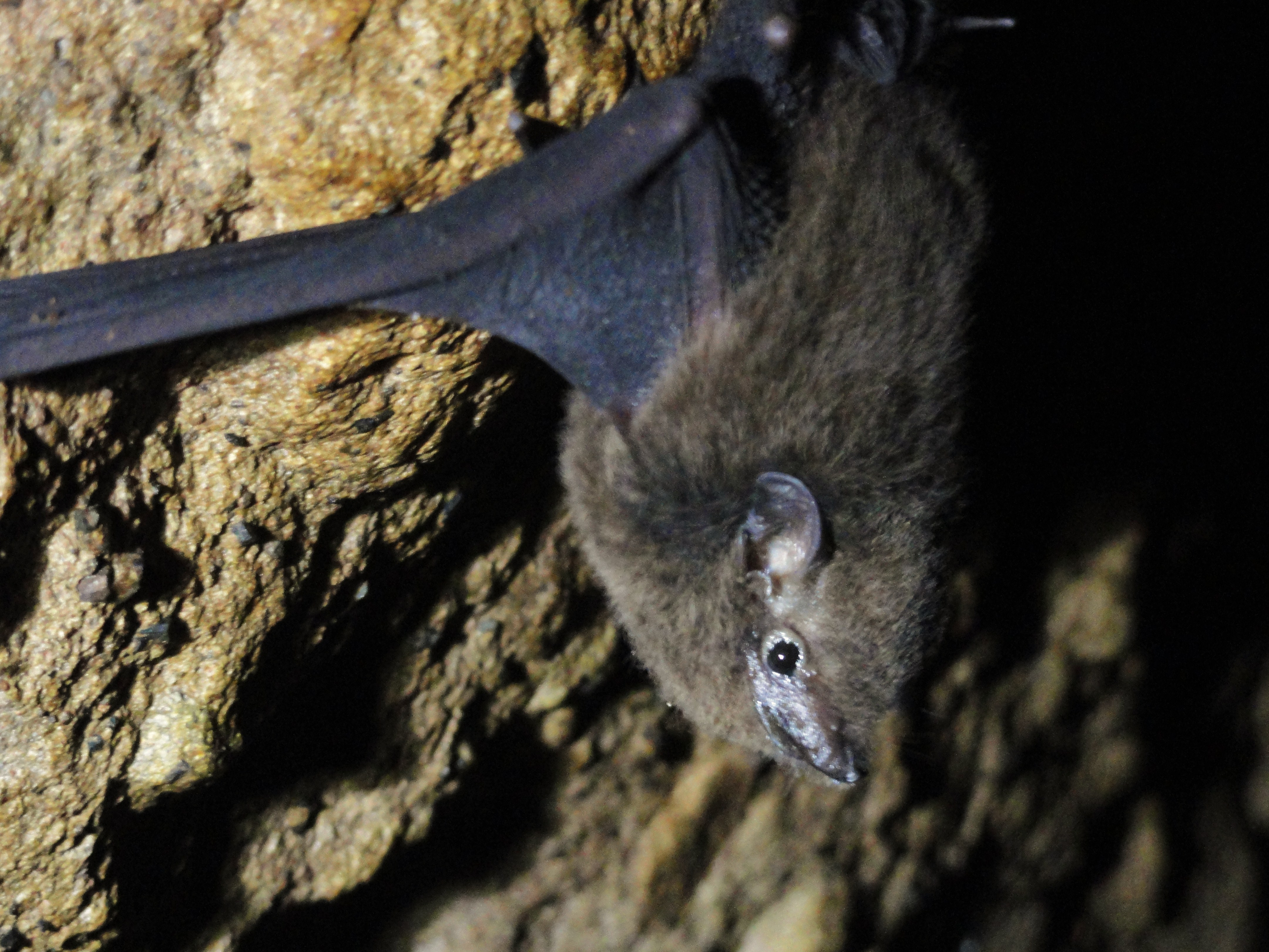 The Pacific sheath-tailed bat, also known as the peapea vai (Emballonura semicaudata semicaudata), is likely extirpated from American Samoa, but is known to occur in Samoa, Fiji, Tonga and Vanuatu in low numbers. Photo by Joanne Malotaux.